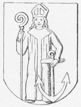 Coat of arms of Nørre Herred (Hundred) on Bornholm, a former administrative subdivision of Denmark, 1584 version. Illustration from the article Om danske By- og Herredsvaaben written by Anders Thiset and published in Tidsskrift for Kunstindustri 1893-1894.